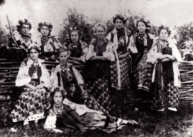 Girls Dikan'ka. The first and fifth girls left are two daughters Viktor Sergeyevich Kochubey - Nadia and Sofia